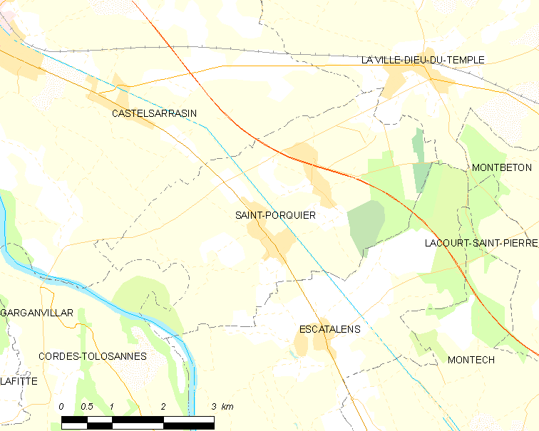 Map of French municipality Saint-Porquier